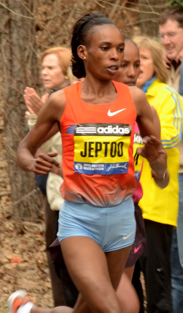 Rita Jeptoo, female winner of 2013 Boston Marathon near half way point after wellesley college scream tunnel but before wellesley square.